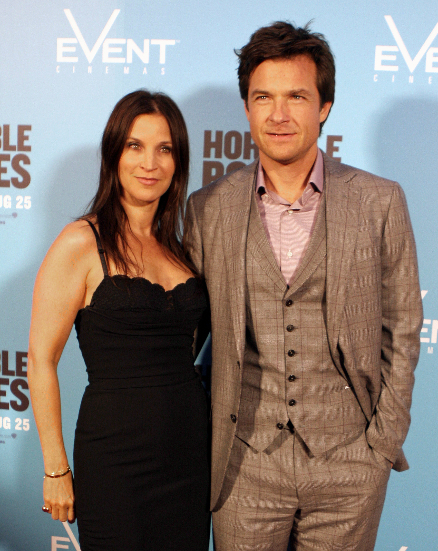 Jason Bateman with wife Amanda Anka at the film premiere of Horrible Bosses.